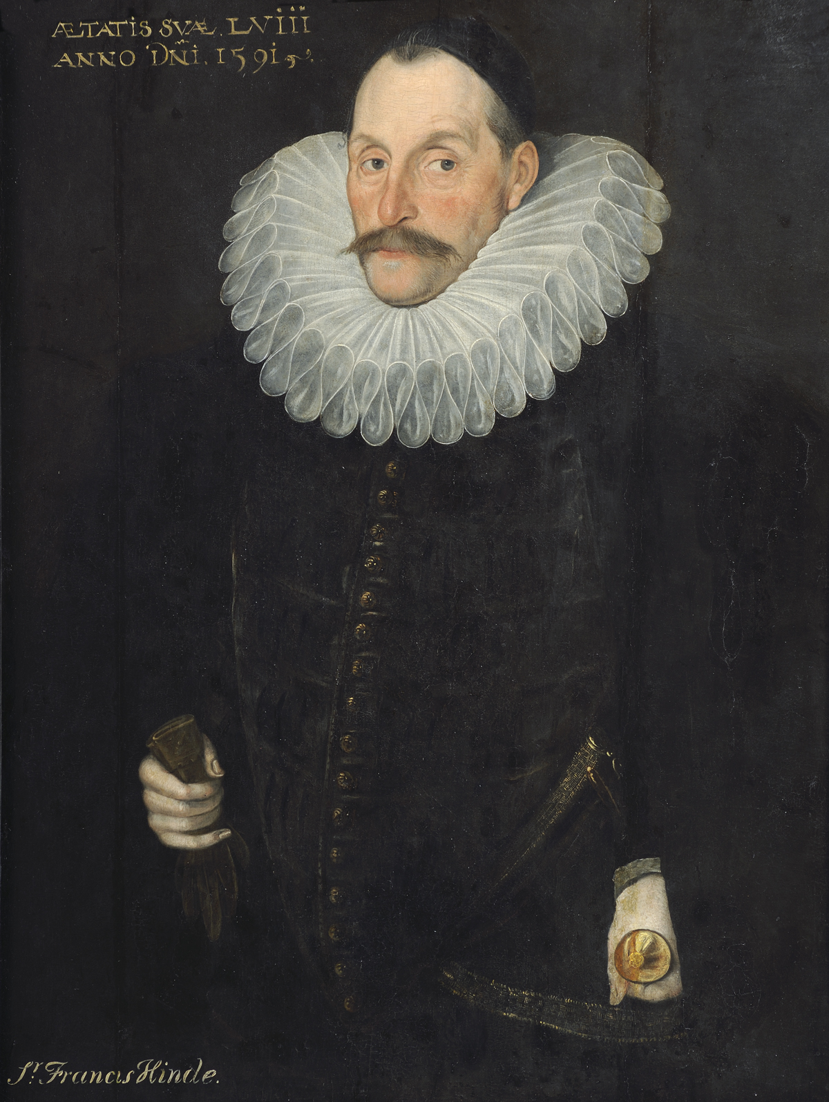 Portrait of Sir Francis Hynde (d. 1597).